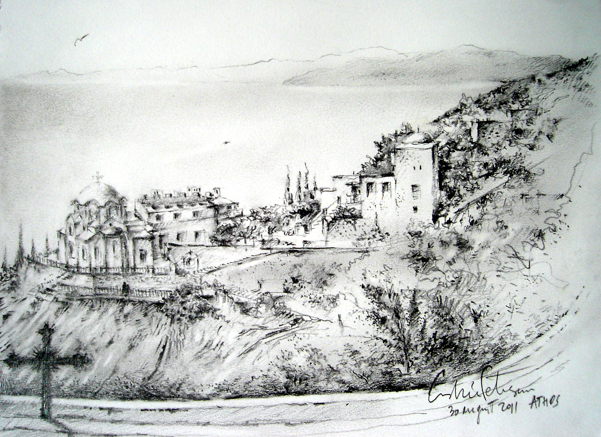 St George Cloister in Athos Mountain 2011 (drawing pencil)